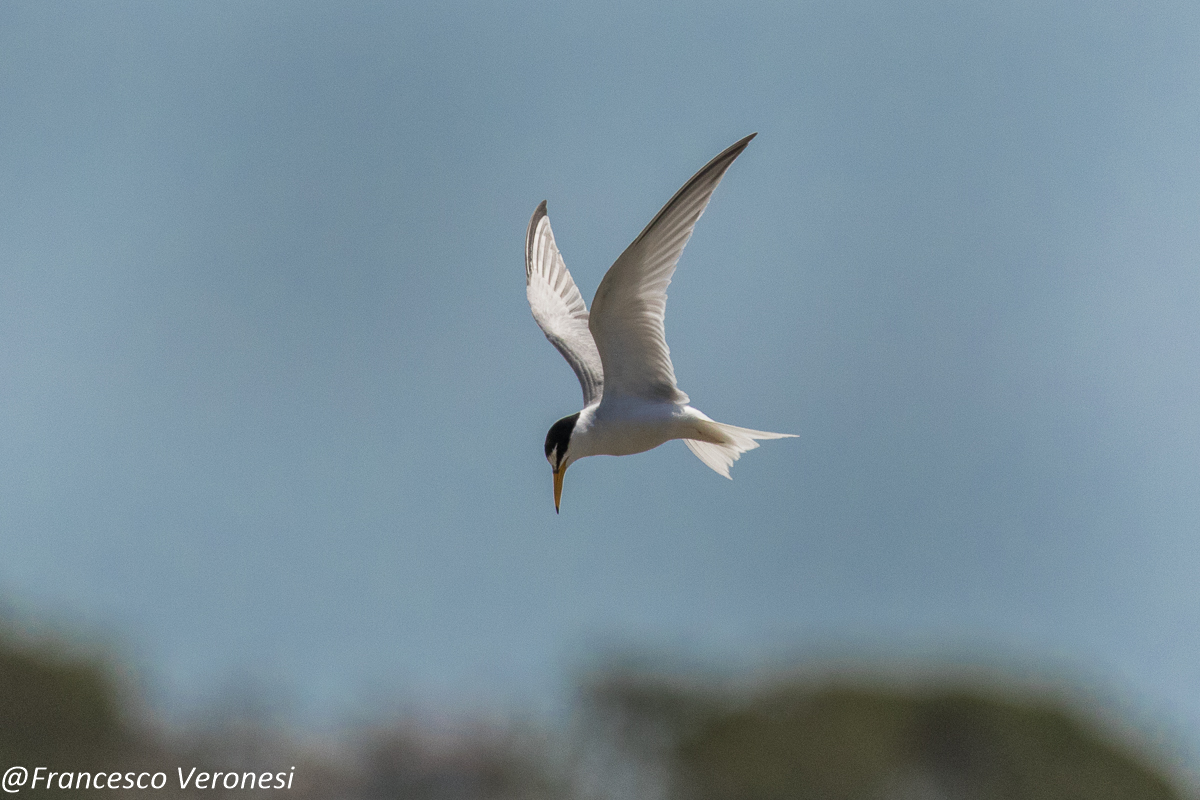 Little Tern - Algarve - Portugal CD5A5072